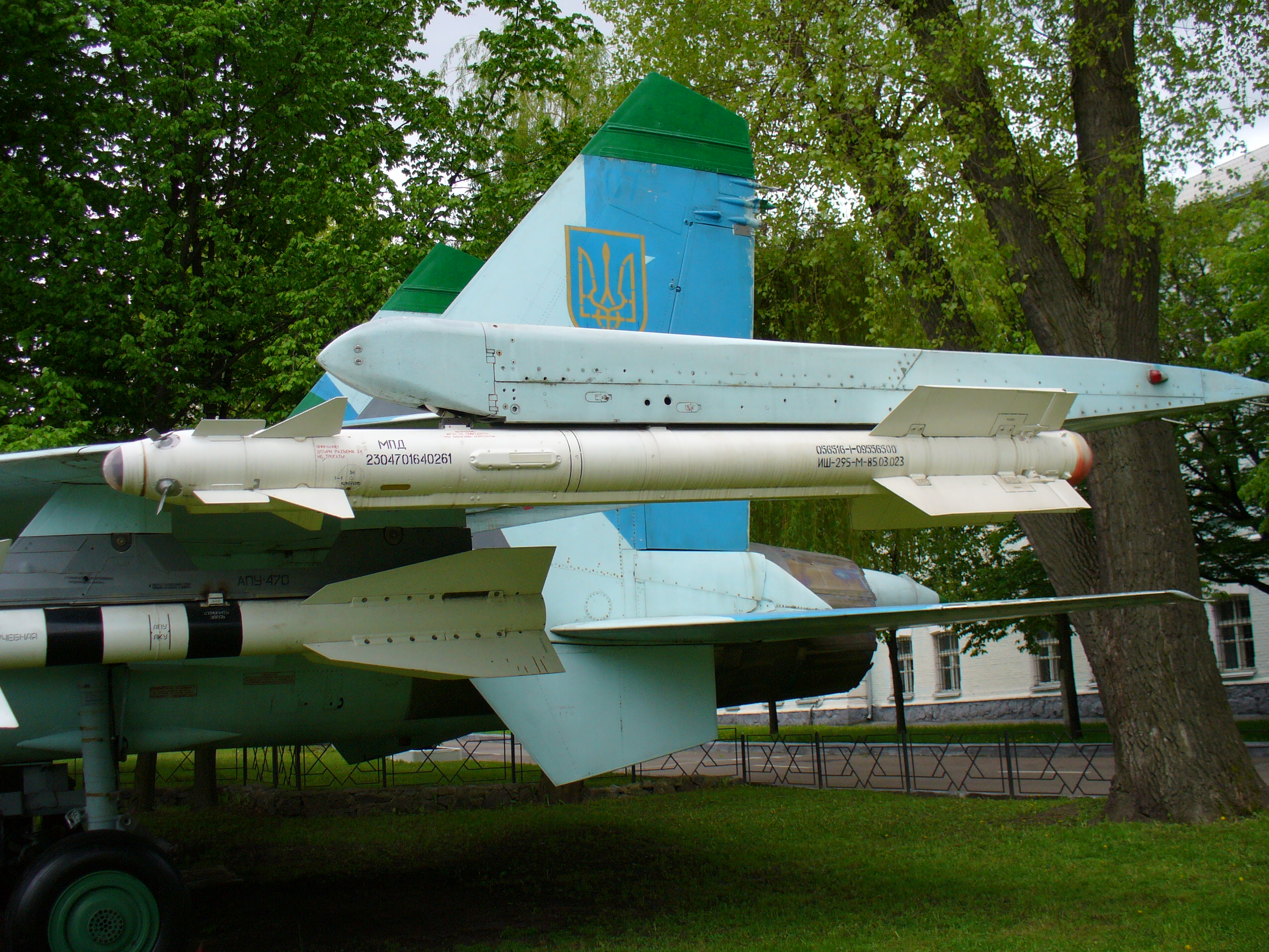 The Sukhoi Su-27 (NATO reporting name "Flanker"). Ukrainian Air Force Museum in Vinnitsa.